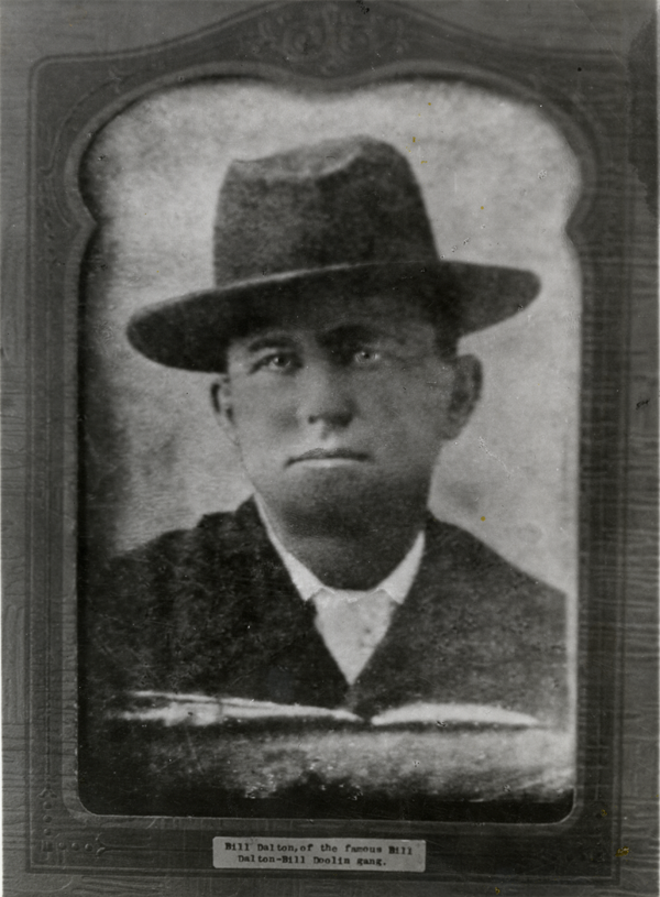 Bill Dalton, member Wild Bunch and part of the Dalton family